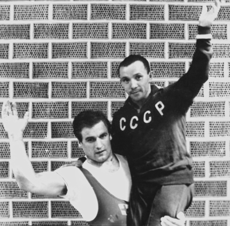 Weightlifting Baltic Cup. Kaarlo Kangasniemi together with Gennady Chetin